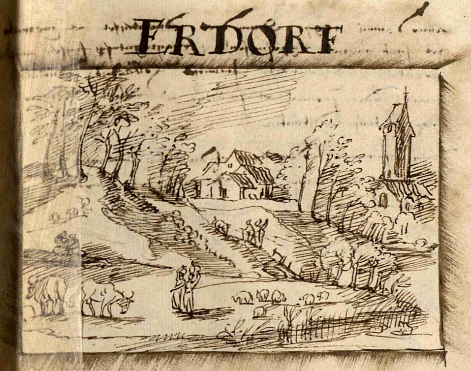 "Erdorf" (today part of Bitburg) by Jean Bertels, ~1597